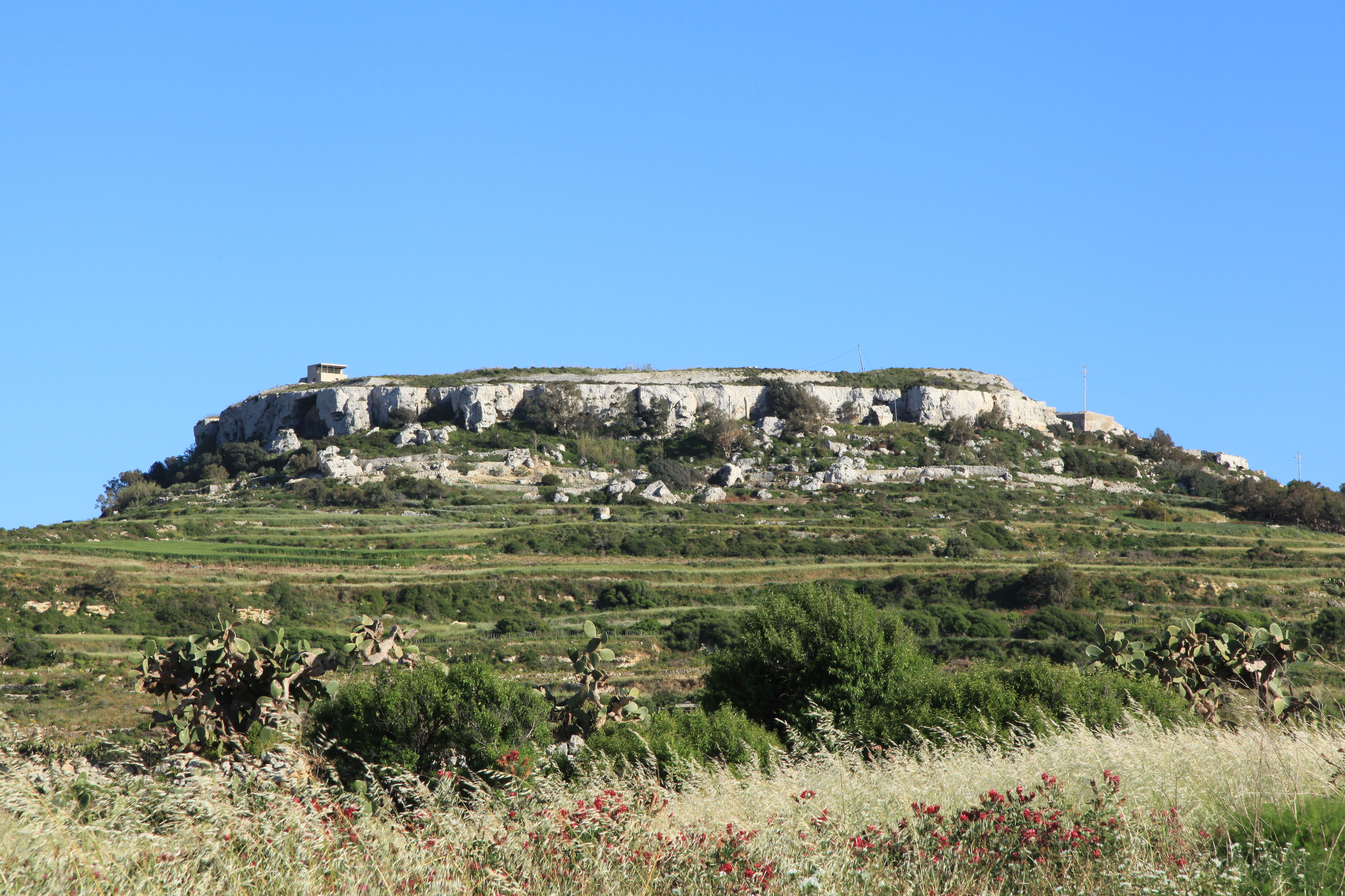 Agricultural lowlands in Mġarr and Fort Bingemma on top of the hill in Rabat (Malta)